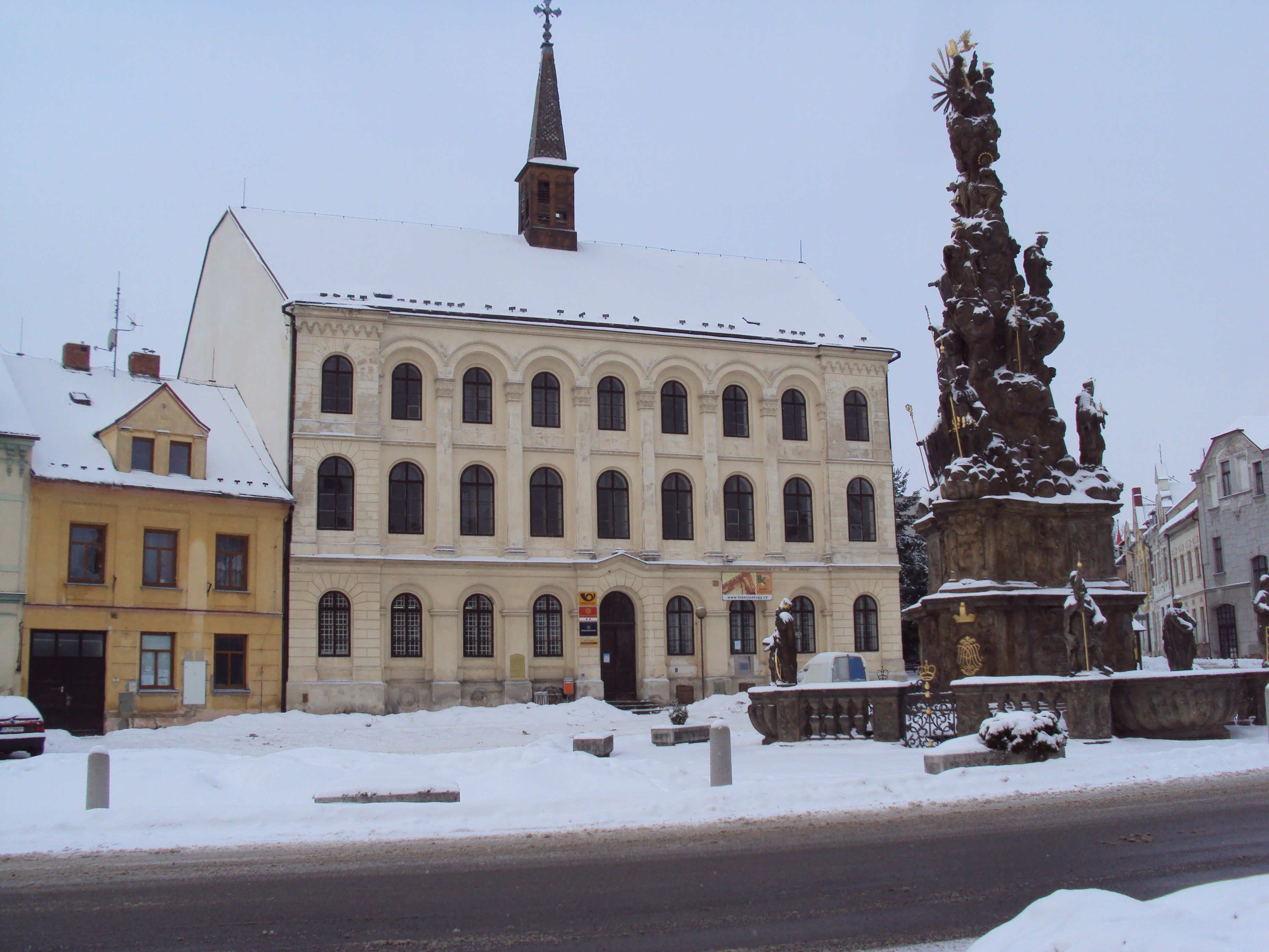 Monastery Zákupy